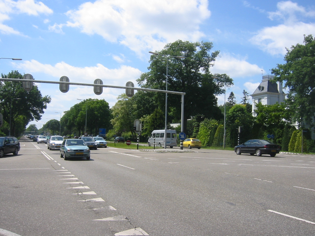 The Dutch N65 near the intersecion Vught-Martinilaan